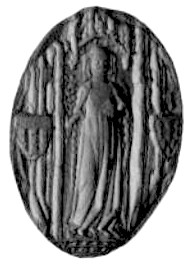 Marguerite de Valois (1342)